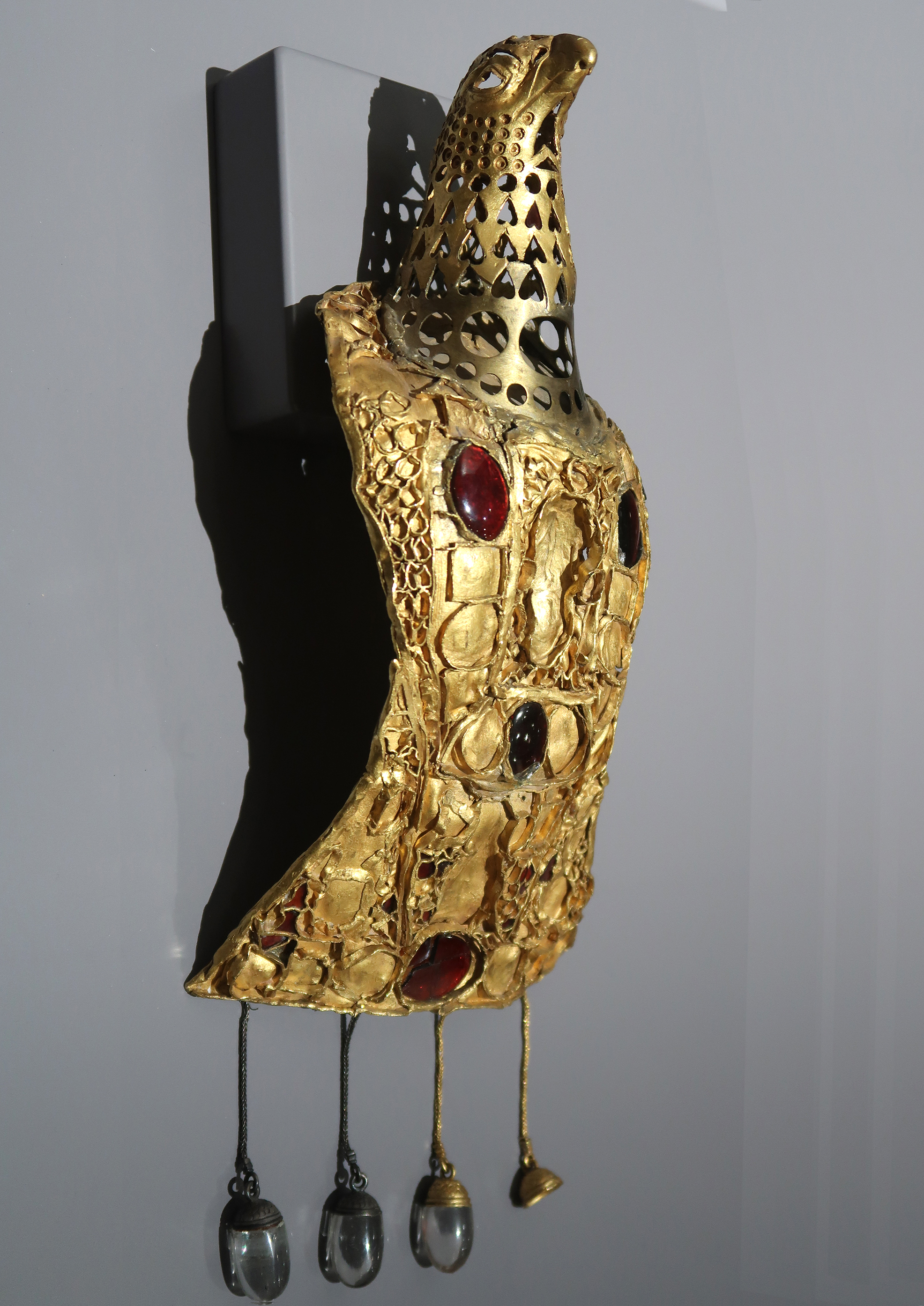 An Ostrogothic eagle-headed fibula